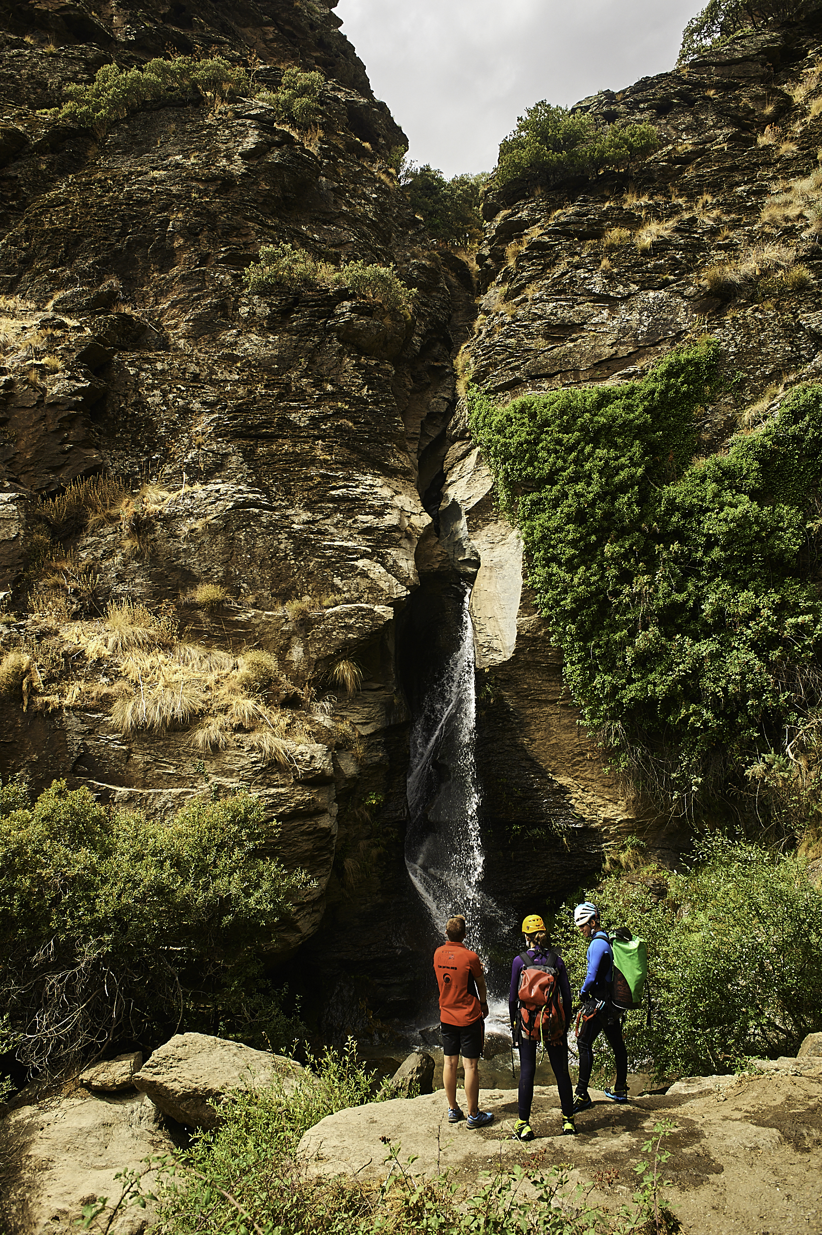 View of the 15-meter waterfall on the Tajo de Cortes of the Bermejo River in Pórtugos, Alpujarras de Granada (Sierra Nevada)